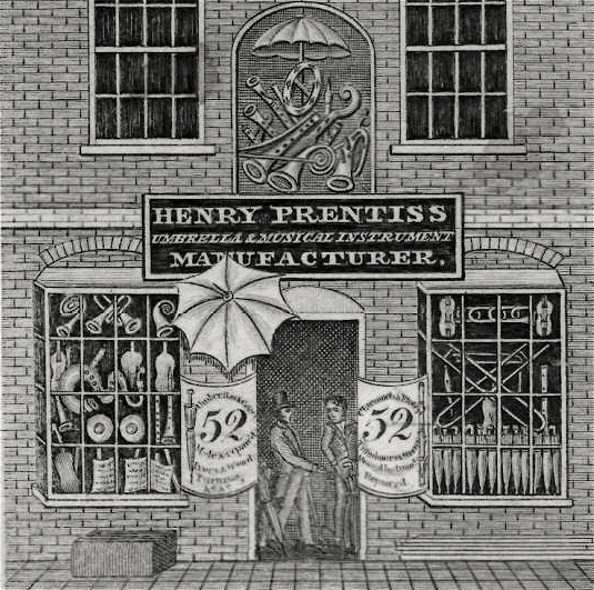 Henry Prentiss umbrella & musical instrument manufacturer. 52 Court St. opposite the N. England museum. Boston